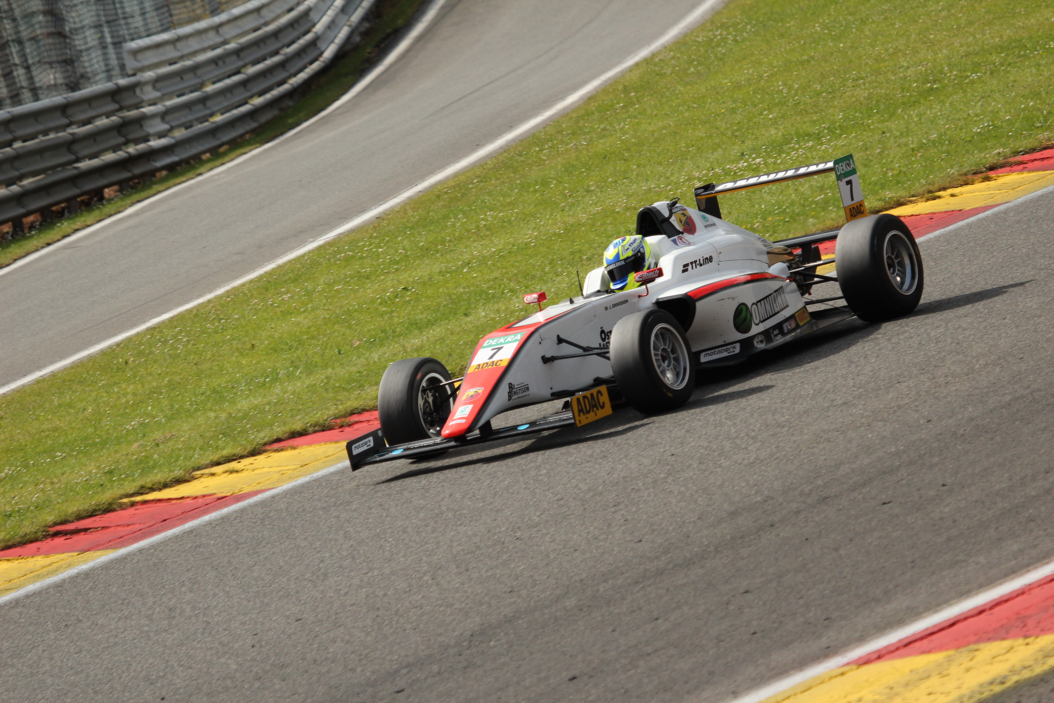 Joel Eriksson at Spa in 2015, German Formula 4 Championship